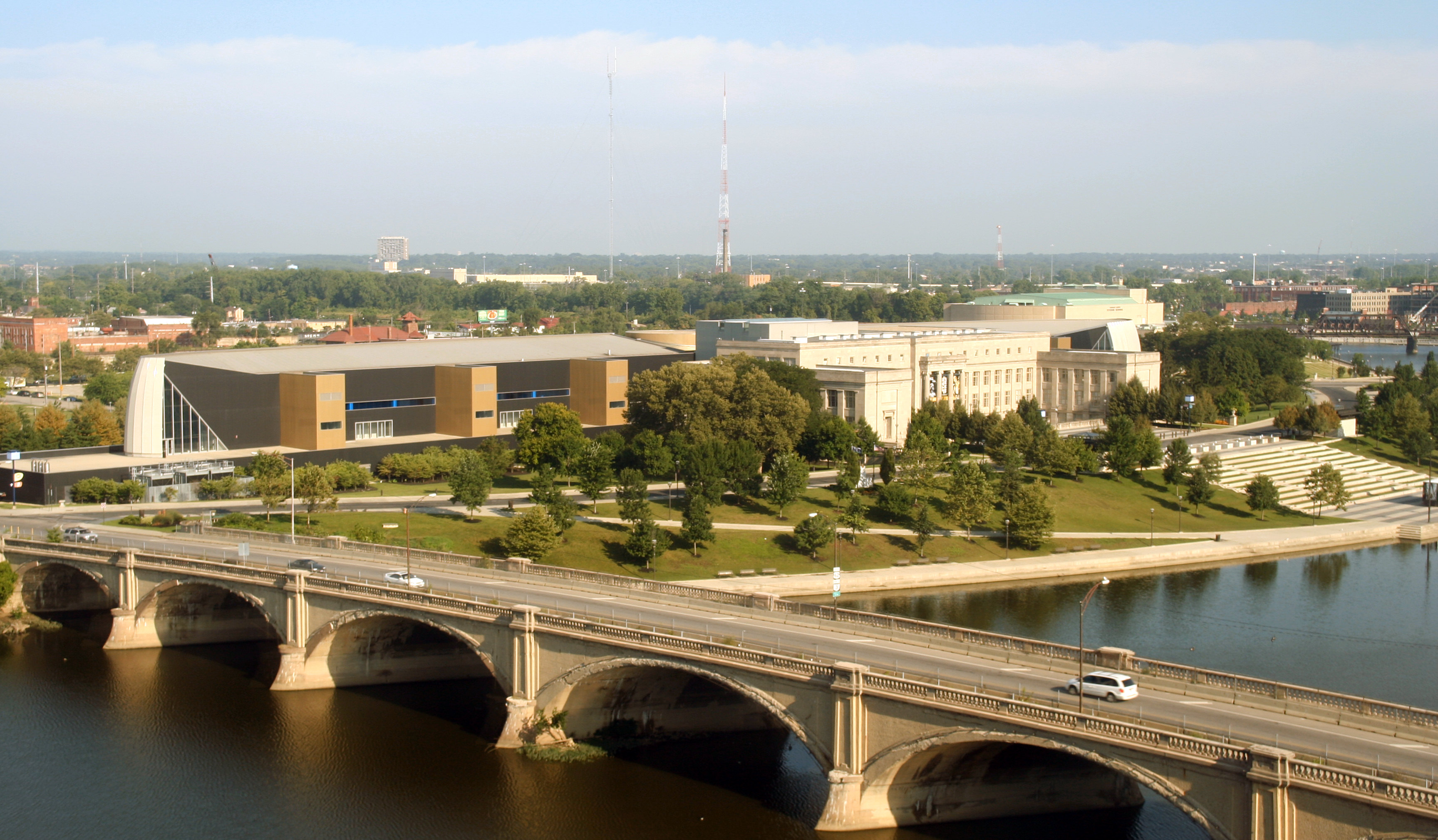 COSI in Columbus, Ohio.